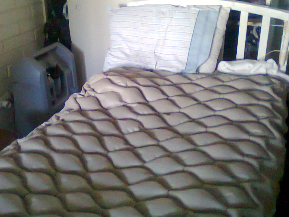 Sore and ulcer prevention air mattress (medical care).